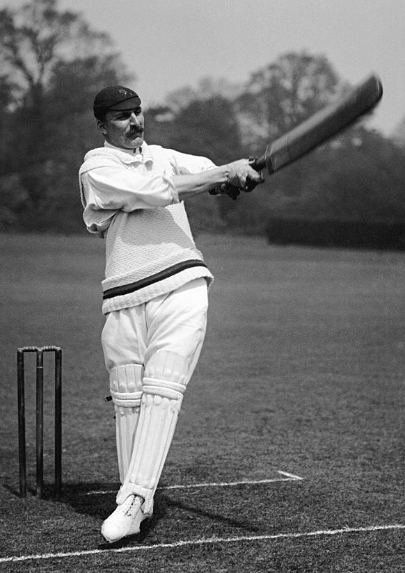 Archibald Campbell MacLaren, Lancashire and England, circa 1905.